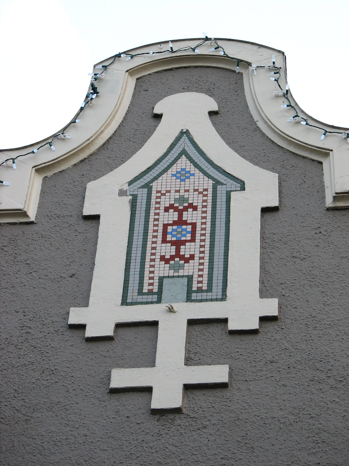 Detail of Hibernian Hall at 128 Northeast Russell Street, Portland, Oregon, United States, is listed on the US National Register of Historic Places. The building currently has multiple tenants, including a cafe and music venue.